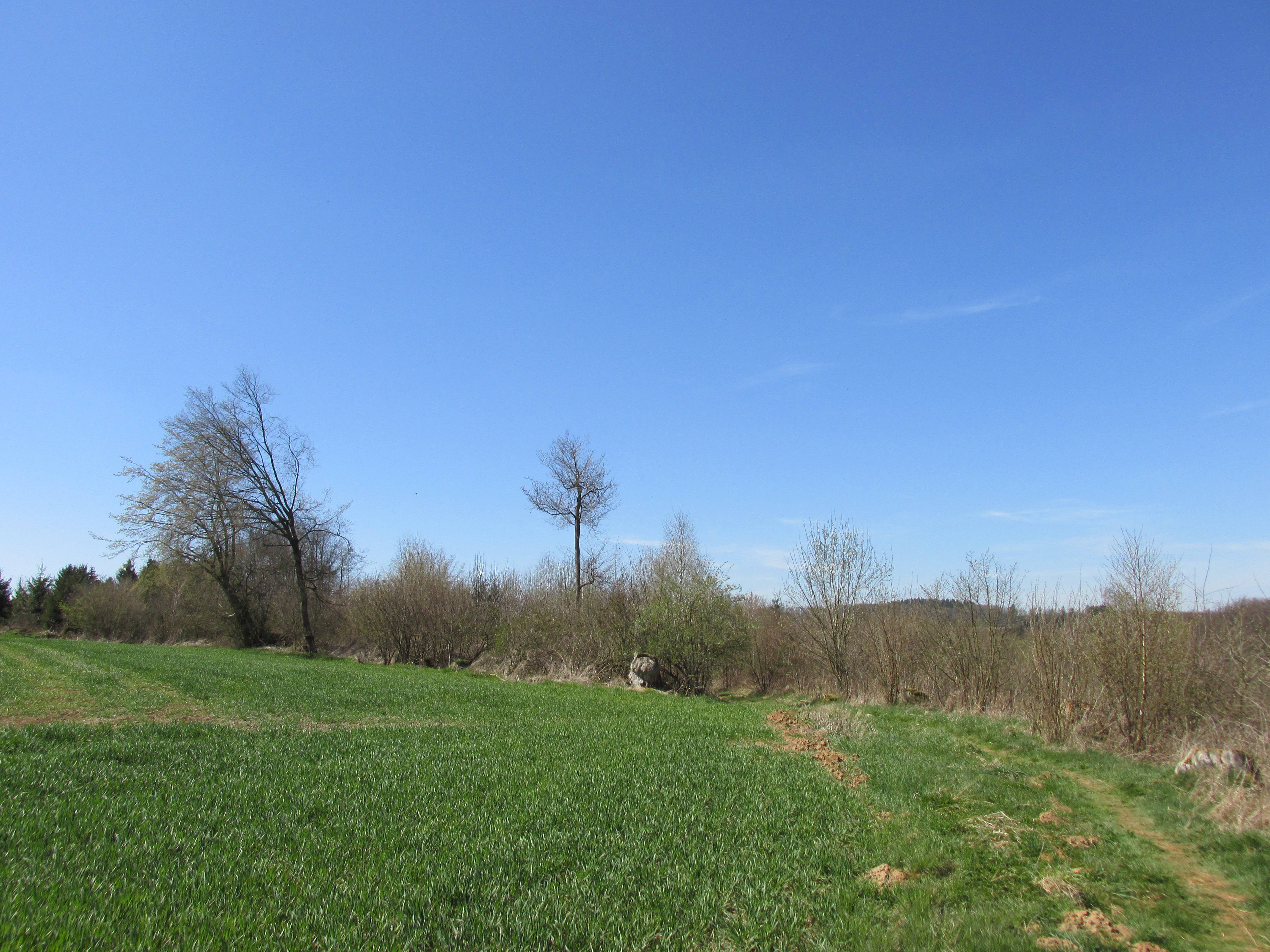 Nature reserve OE-011 Breiter Hagen, Lennestadt, Germany check usage